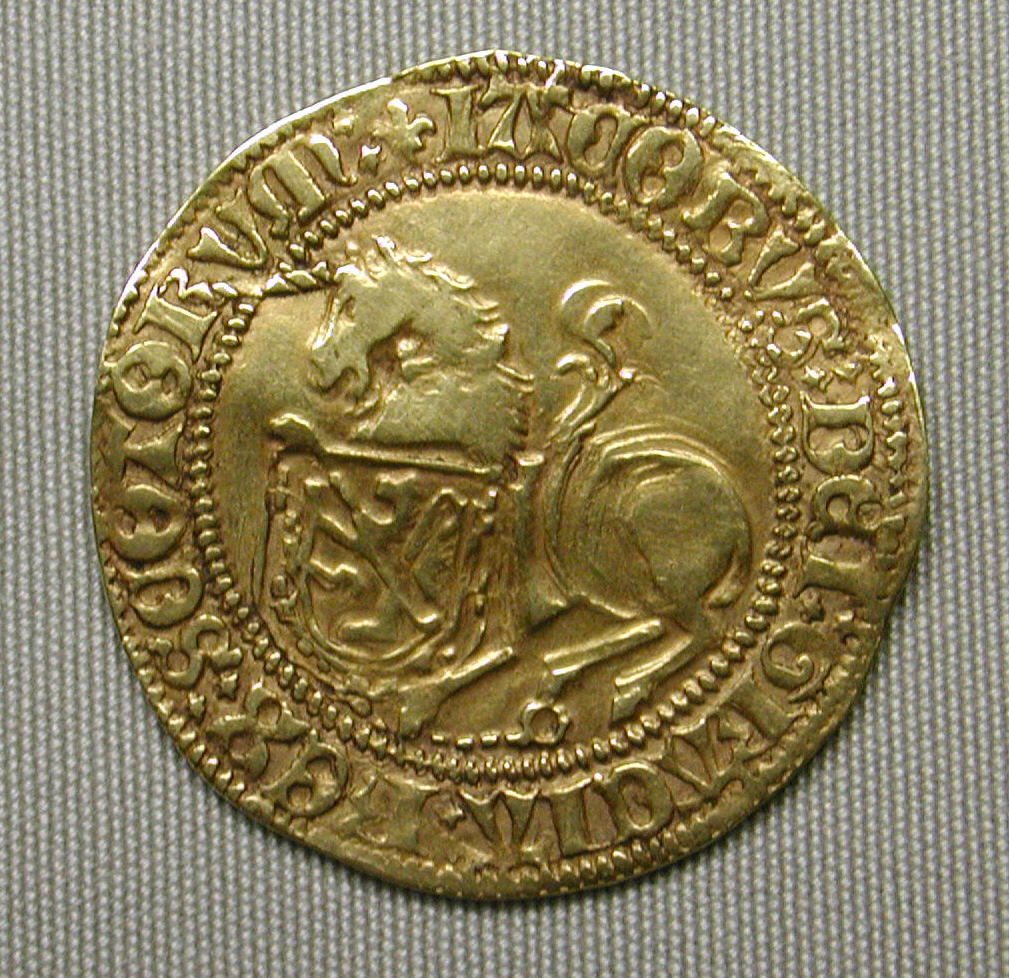 British; Unicorn coin; Coins